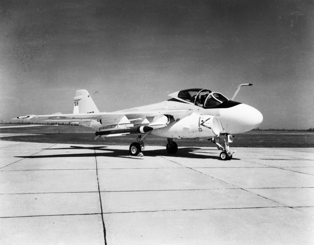 PictionID:42253946 - Title:Grumman A-6A with prototype HARM missile installation (mfr via RJF) - Catalog:17_000079 - Filename:17_000079.tif - ------------Image from the René Francillon Photo Archive. Having had his interest in aviation sparked by being at the receiving end of B-24s bombing occupied France when he was 7-yr old, René Francillon turned aviation into both his vocation and avocation. Most of his professional career was in the United States, working for major aircraft manufacturers and airport planning/design companies. All along, he kept developing a second career as an aviation historian, an activity that led him to author more than 50 books and 400 articles published in the United States, the United Kingdom, France, and elsewhere. Far from “hanging on his spurs,” he plans to remain active as an author well into his eighties.-------PLEASE TAG this image with any information you know about it, so that we can permanently store this data with the original image file in our Digital Asset Management System.--------------SOURCE INSTITUTION: San Diego Air and Space Museum Archive